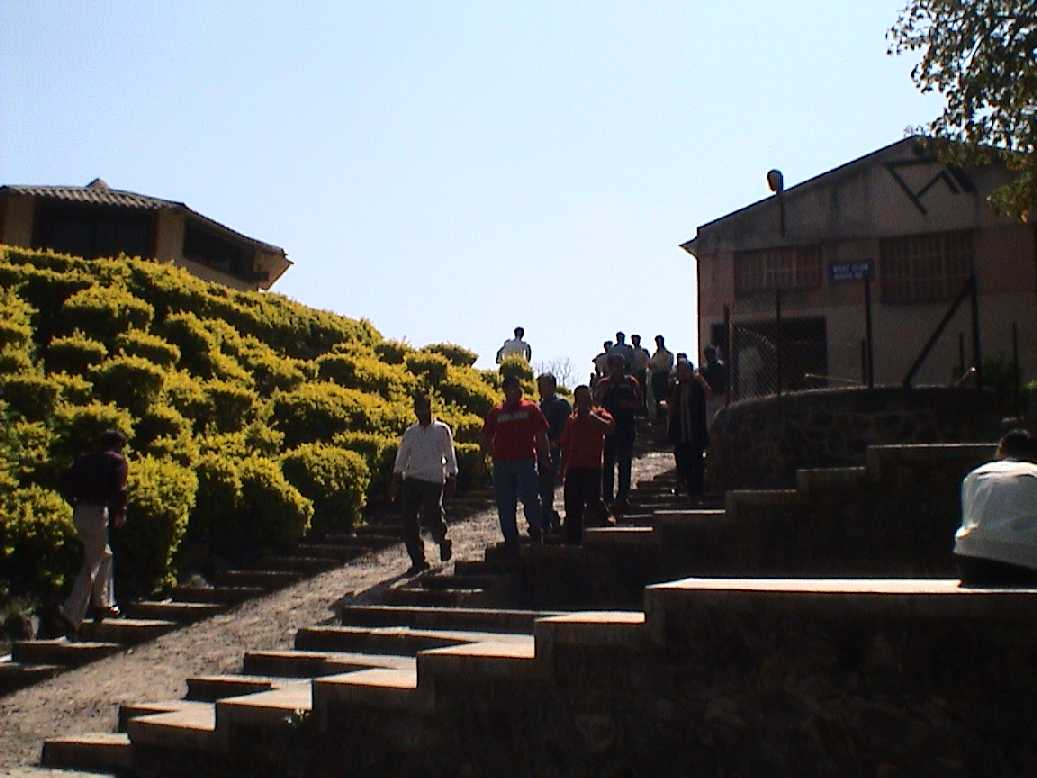 KTHM College Boat Club Photographed in December 2004 by Vijay Barve